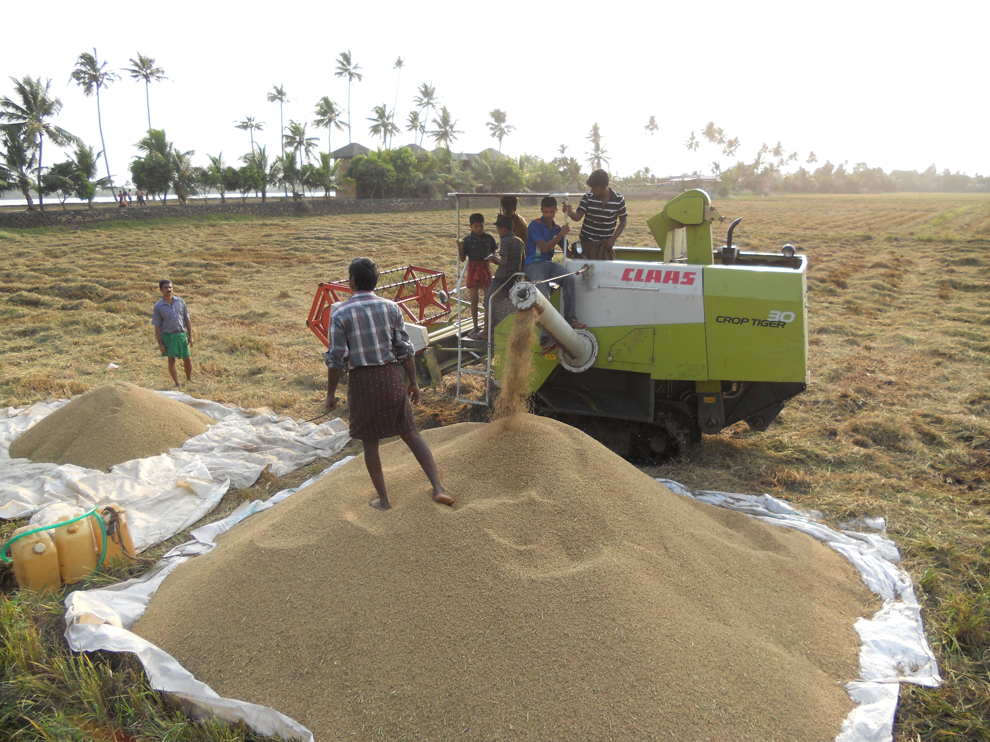 A Claas Crop Tiger 30 terra trac small combine harvester, manufactured in India. – The Crop Harvesting Machine is used to harvest the forage crops cultivated in the upland/paddy field and forms roll bale simultaneously [really?]. The crop harvesting machine comprises travelling, reaping, and baler parts. There are various types of Harvesting Machines, such as the Crop Harvesting Machines, Grain Harvesting Machines, Rootcrop Harvesting Machines, Reapers, Threshers and Vegetable Harvesting Machines.